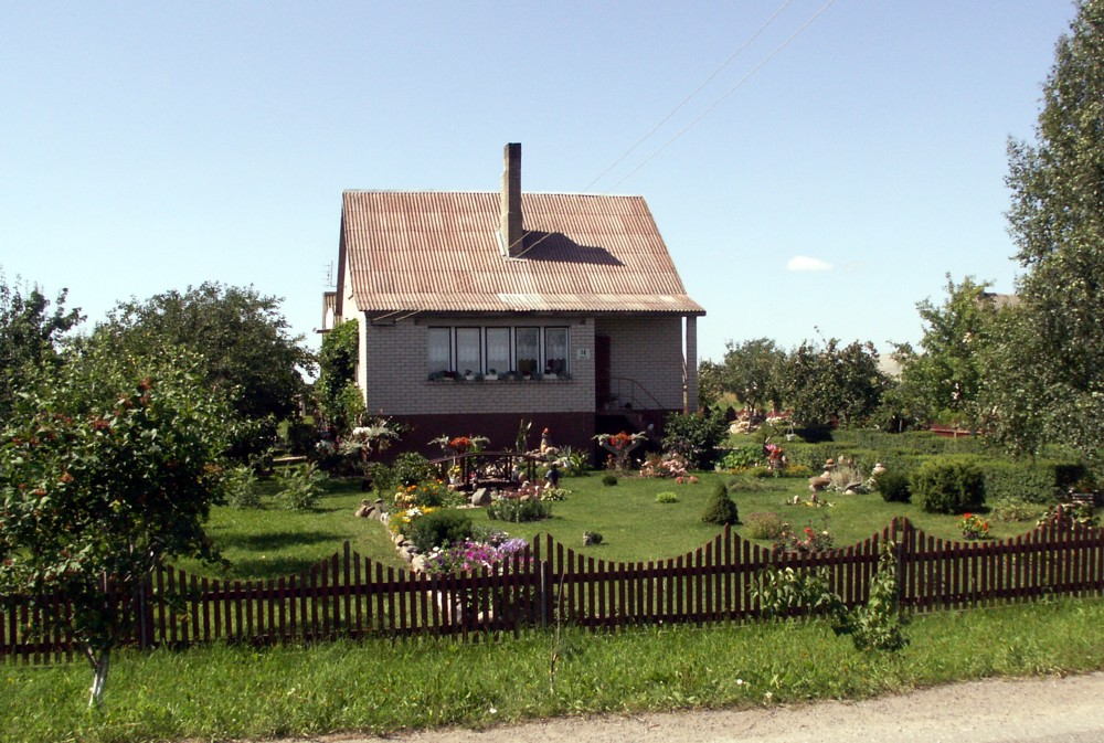 Kupriai, Šiauliai district, Lithuania